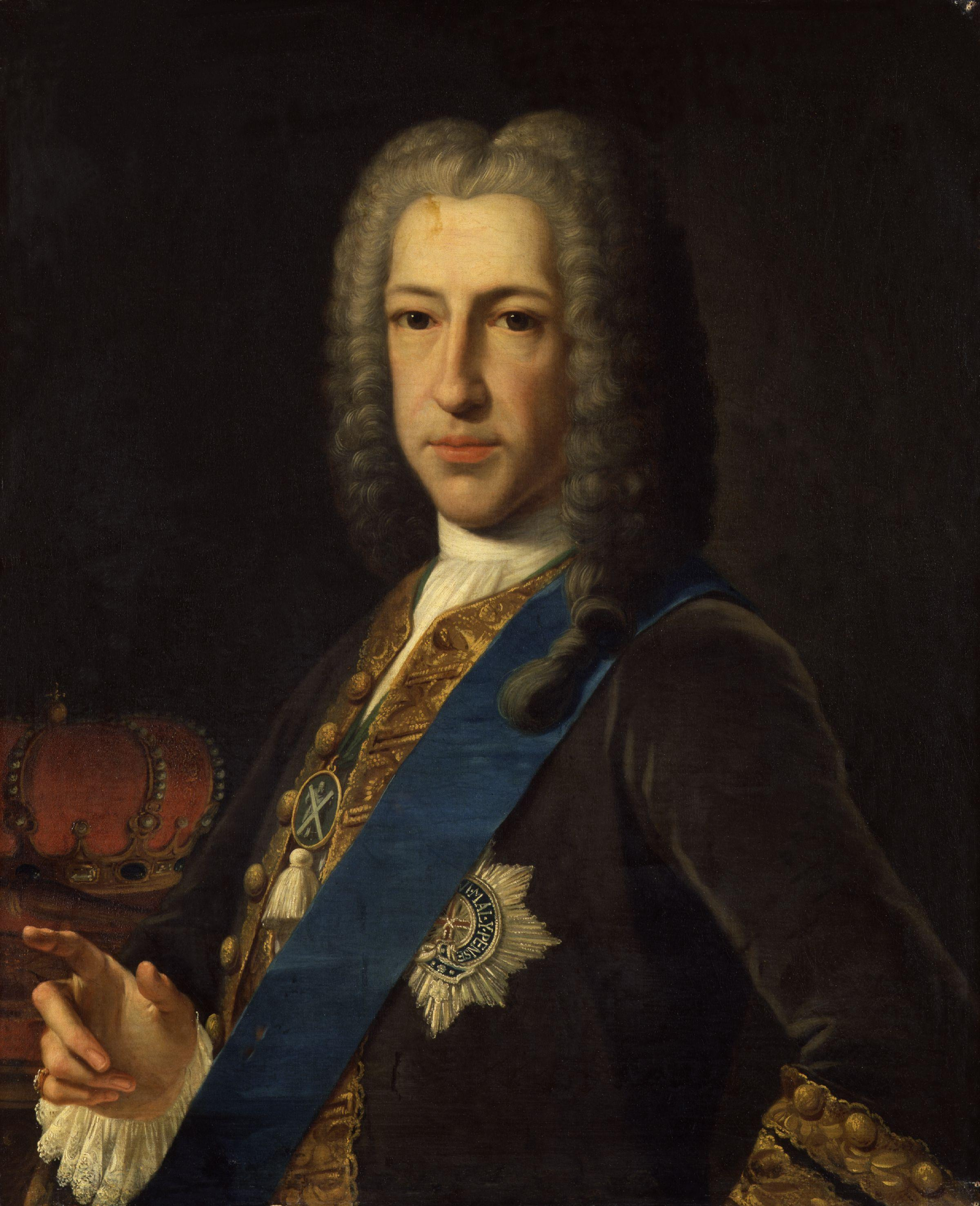 Prince James Francis Edward Stuart, by Anton Raphael Mengs (died 1779). All images in this batch have been confirmed as author died before 1939 according to the official death date listed by the NPG.